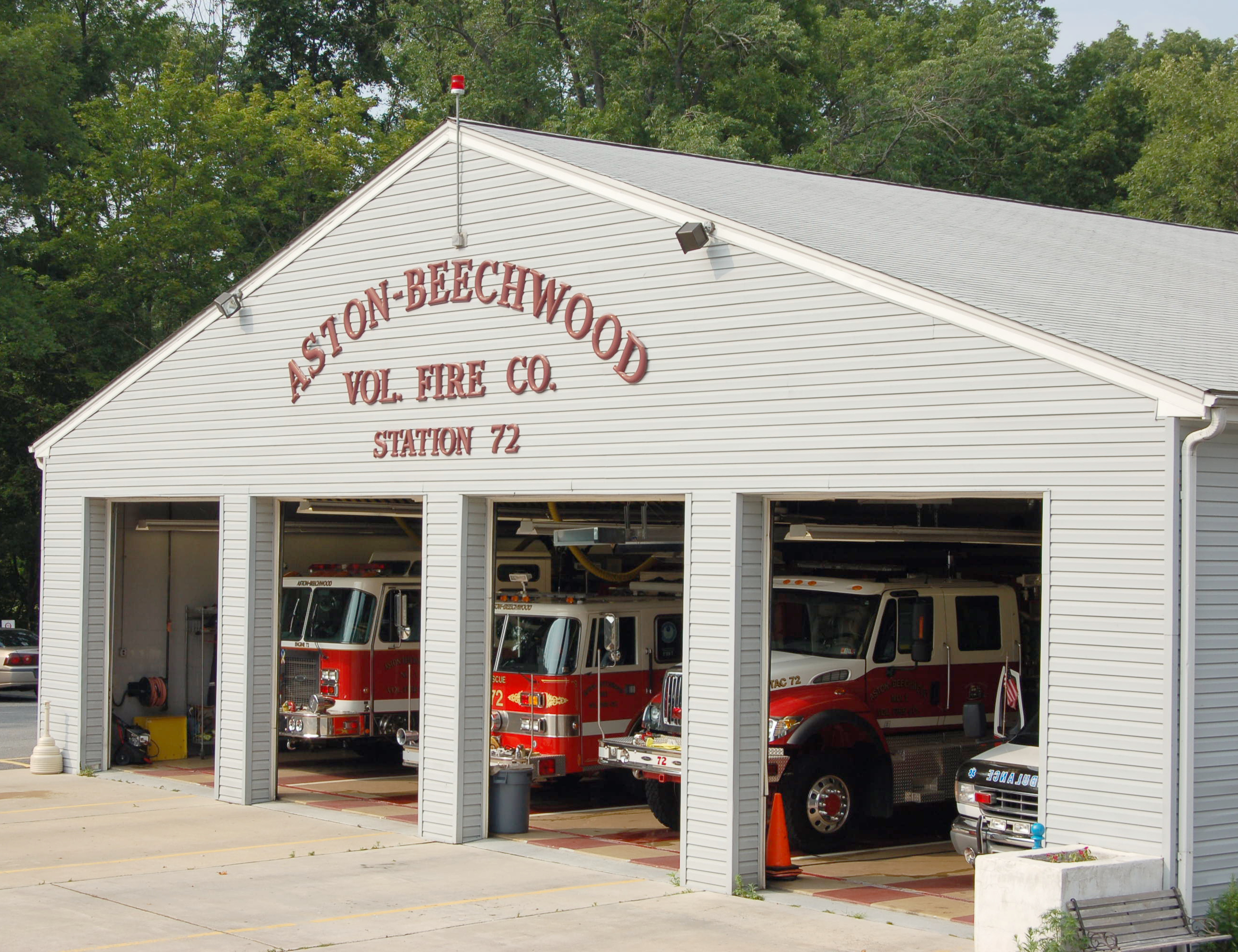 A photograph of the Aston-Beechwood fire station in Aston Township, Delaware County, Pennsylvania, United States.